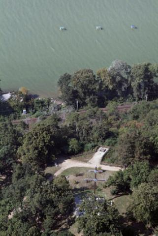 Fonyód, Hungary, aerialphotography